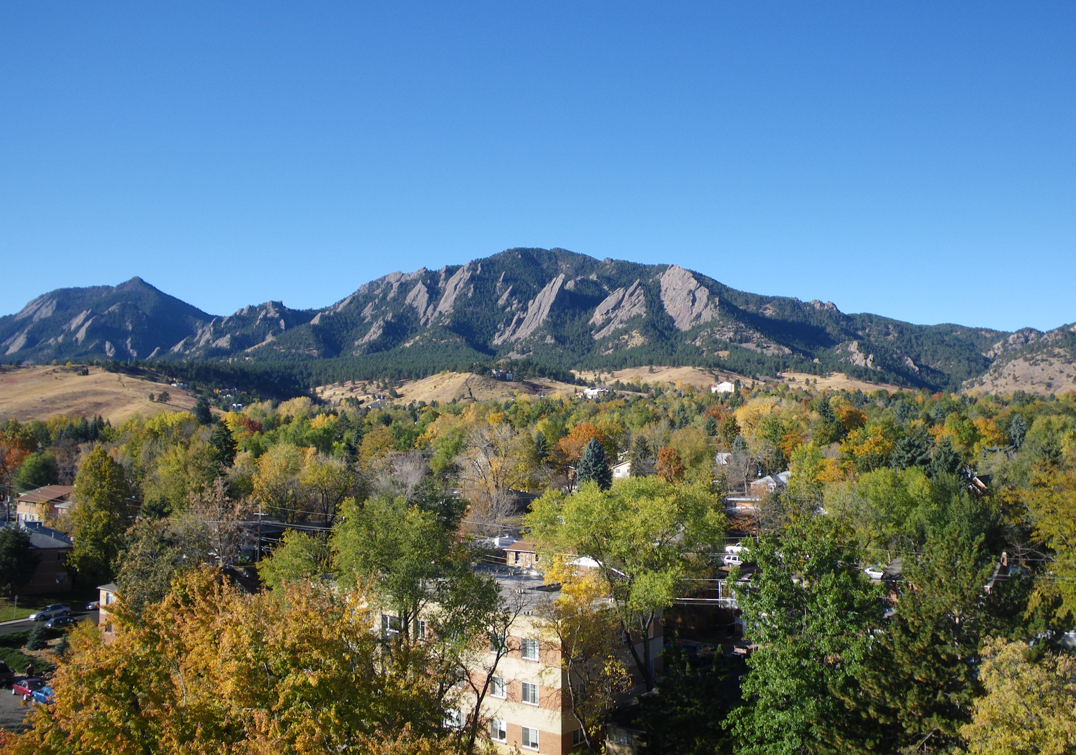 A crisp fall morning in Boulder, Colorado. 01 November 2010.